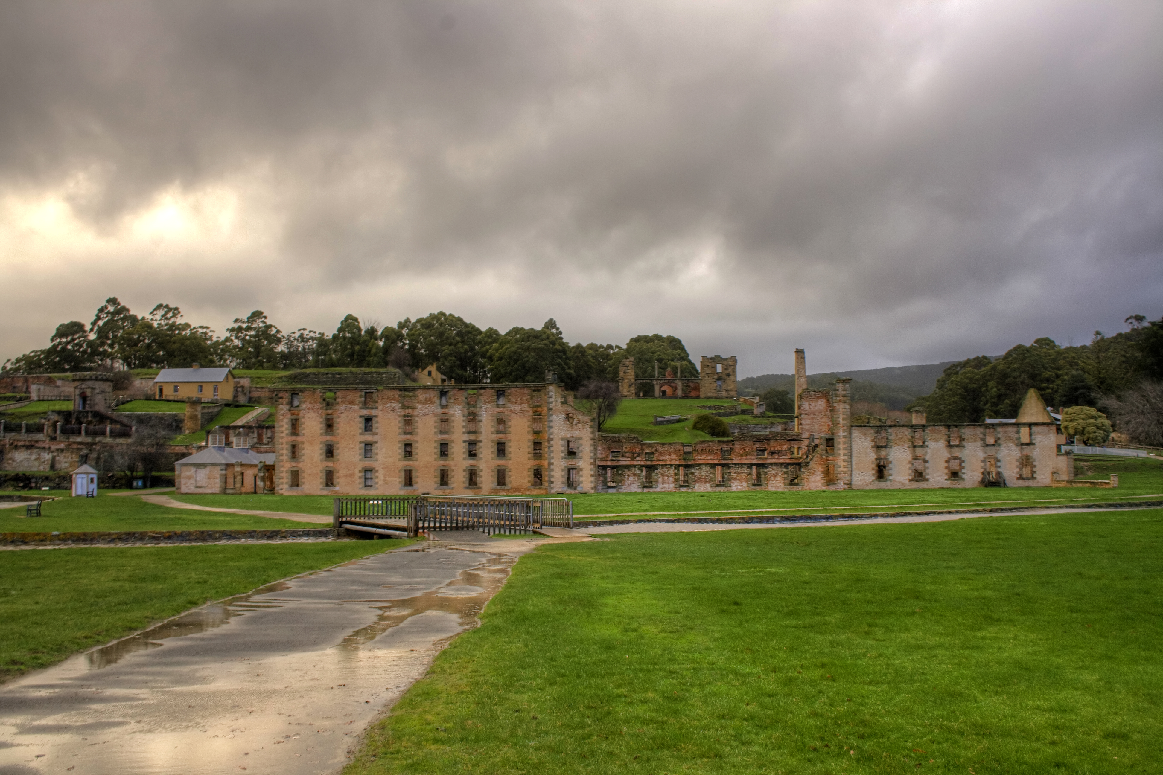 Remains of Port Arthur Penitentiary and surrounding buildings.